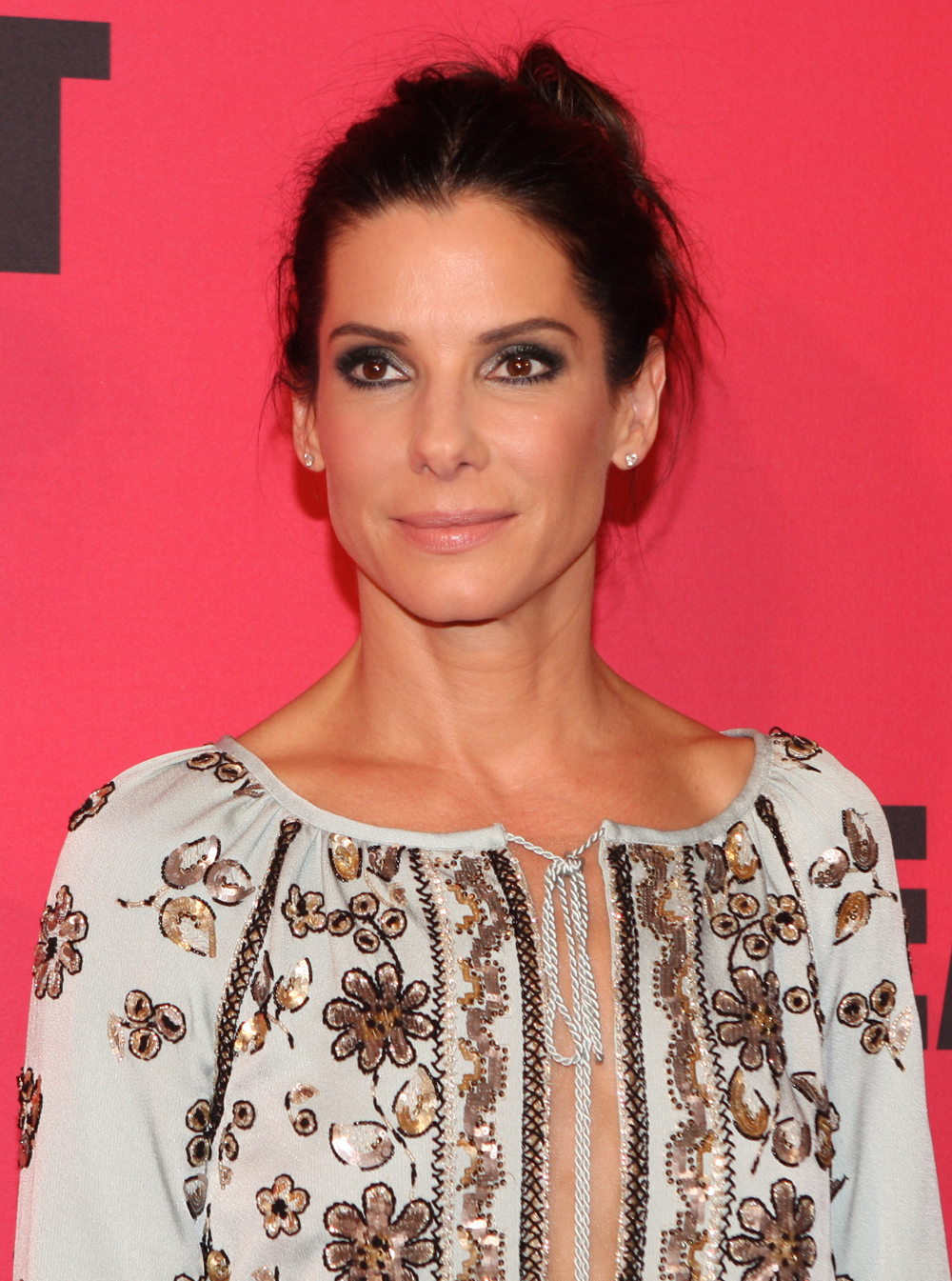 The Heat red carpet movie premiere in Sydney, Australia with Sandra Bullock - 2nd July 2013... Sandra Bullock, a good looking 48-year is in town to promote her new movie, The Heat. Early in the day she hopped a luxury boat on Sydney Harbour to enjoy our city. Event Cinemas in George Street says Bullock and Melissa McCarthy playing detectives in a cop comedy. Bullock plays successful, but highly highly strung FBI special agent Sarah Ashburn and is partnered with tough Boston cop Shannon Mullins (McCarthy). The girls are after a drug boss... of course. Early reviews and box office numbers demonstrate that Bullock's latest movie will be a thumbs up with fans and movie execs. The action-comedy grossed $US40 million ($43.7 million) - in second earnings place - in its opening weekend. Plot Outline: Uptight FBI Special Agent Sarah Ashburn (Sandra Bullock) and foul-mouthed Boston cop Shannon Mullins (Melissa McCarthy) couldn’t be more incompatible. But when they join forces to bring down a ruthless drug lord, they become the last thing anyone expected: buddies. From Paul Feig, director of “Bridesmaids.” Cast... Sandra Bullock as FBI Special Agent Sarah Ashburn Melissa McCarthy as Detective Shannon Mullins Dan Bakkedahl as DEA Agent Craig Demián Bichir as Hale Tom Wilson as Captain Woods Michael Rapaport as Jason Mullins Marlon Wayans as Levy Tony Hale as The John Taran Killam as Adam Nathan Corddry as Michael Mullins Kaitlin Olson as Tatiana Bill Burr as Mark Mullins Michael McDonald as Julian Lance Norris as Scruffy Bar Patron Jamie Denbo as Beth Jessica Chaffin as Gina Steve Bannos as Wayne Raw Leiba as Paint Factory Henchman Joey McIntyre as Peter Mullins Paul Feig as Doctor Websites The Heat 20th Century Fox Eva Rinaldi Photography